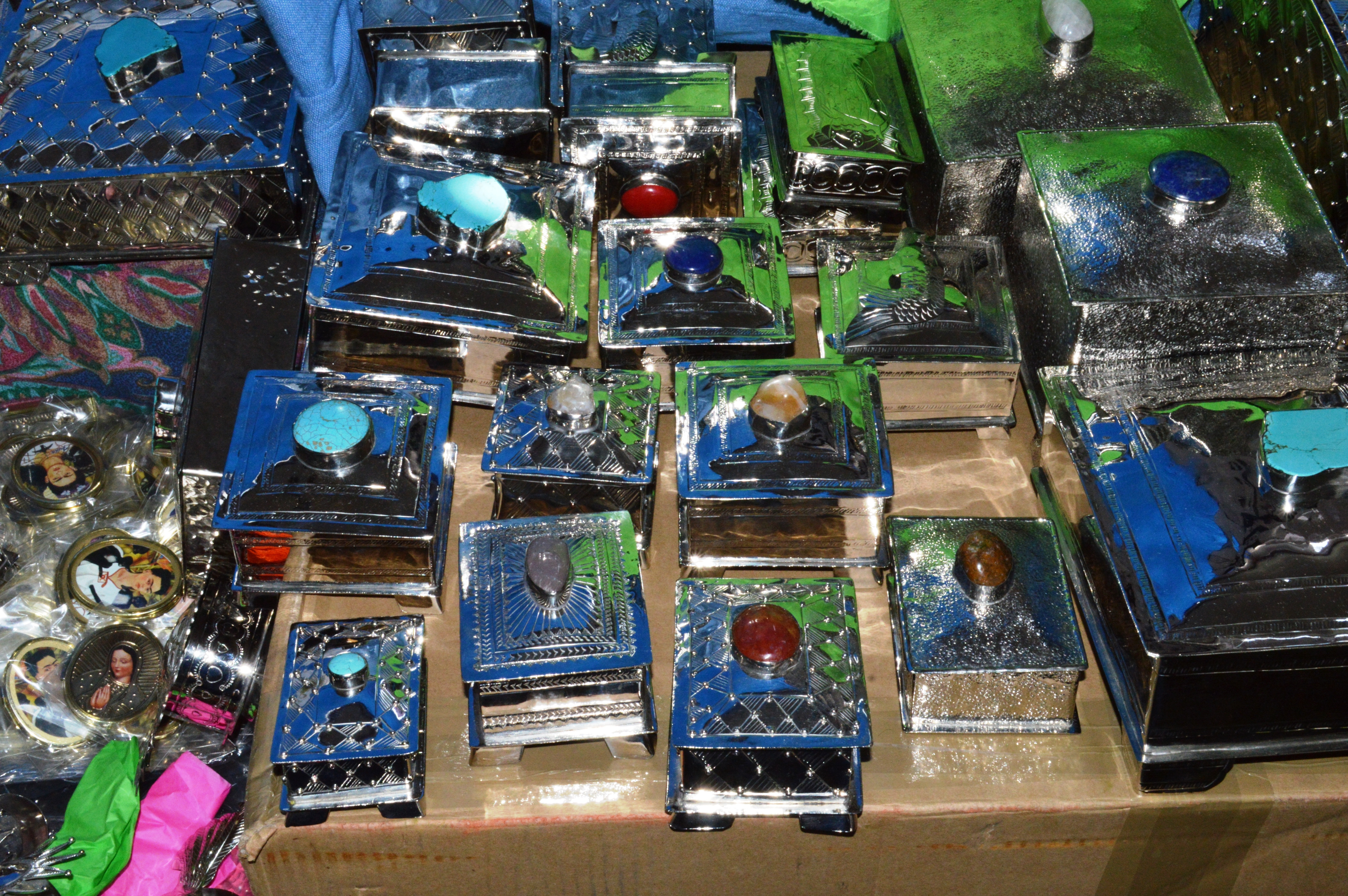 Tin pieces by Ruth Cortéz Rodríguez at the 2015 Feria de los Maestros del Arte in Chapala, Jalisco